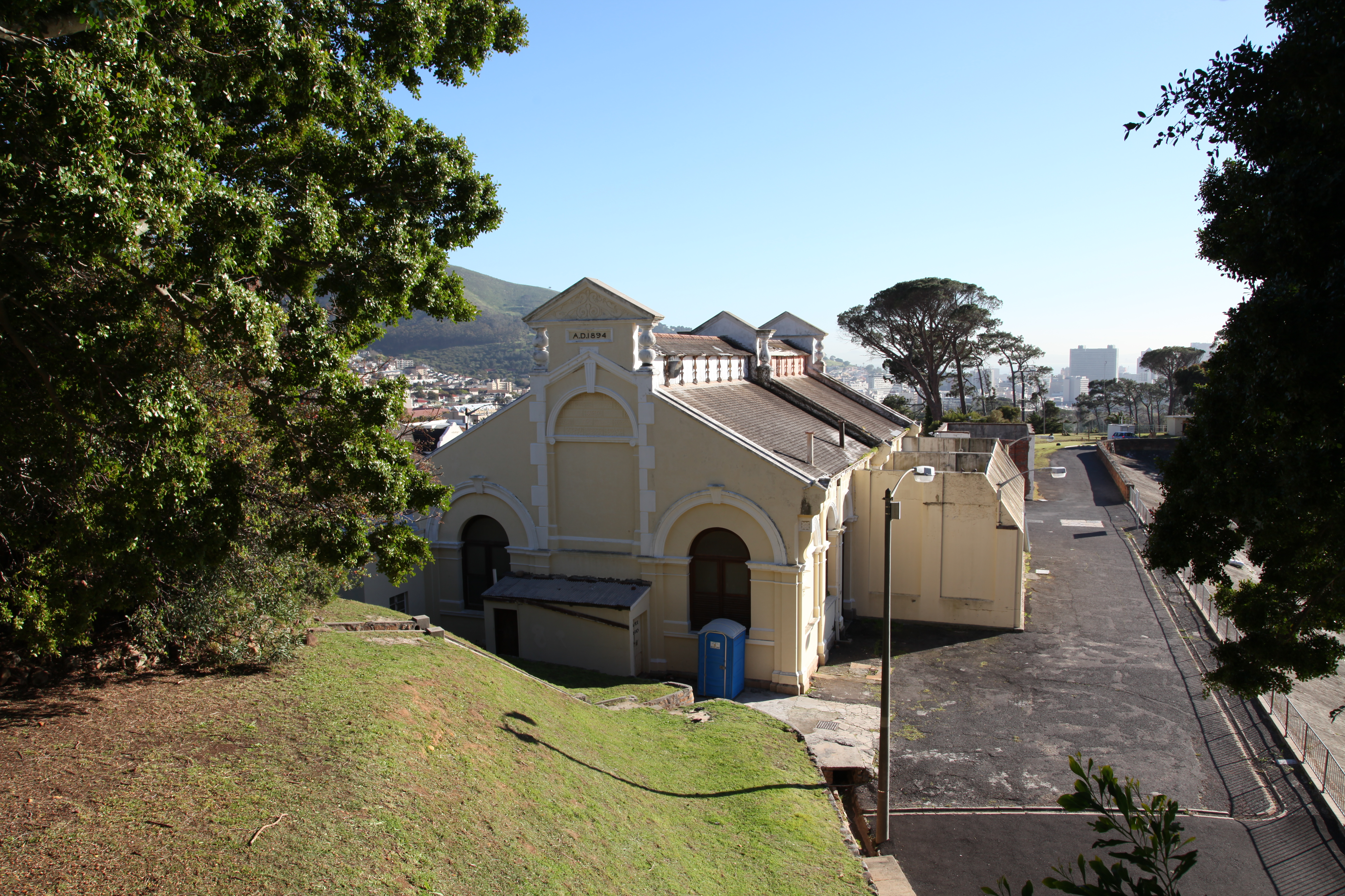 Originally known as the Graaff Electric Light Works, this is the first hydroelectric power station in the country, dated 1894. It adjoins the Molteno Reservoir. This media shows a South African Protected Site with SAHRA file reference 9/2/018/0014.